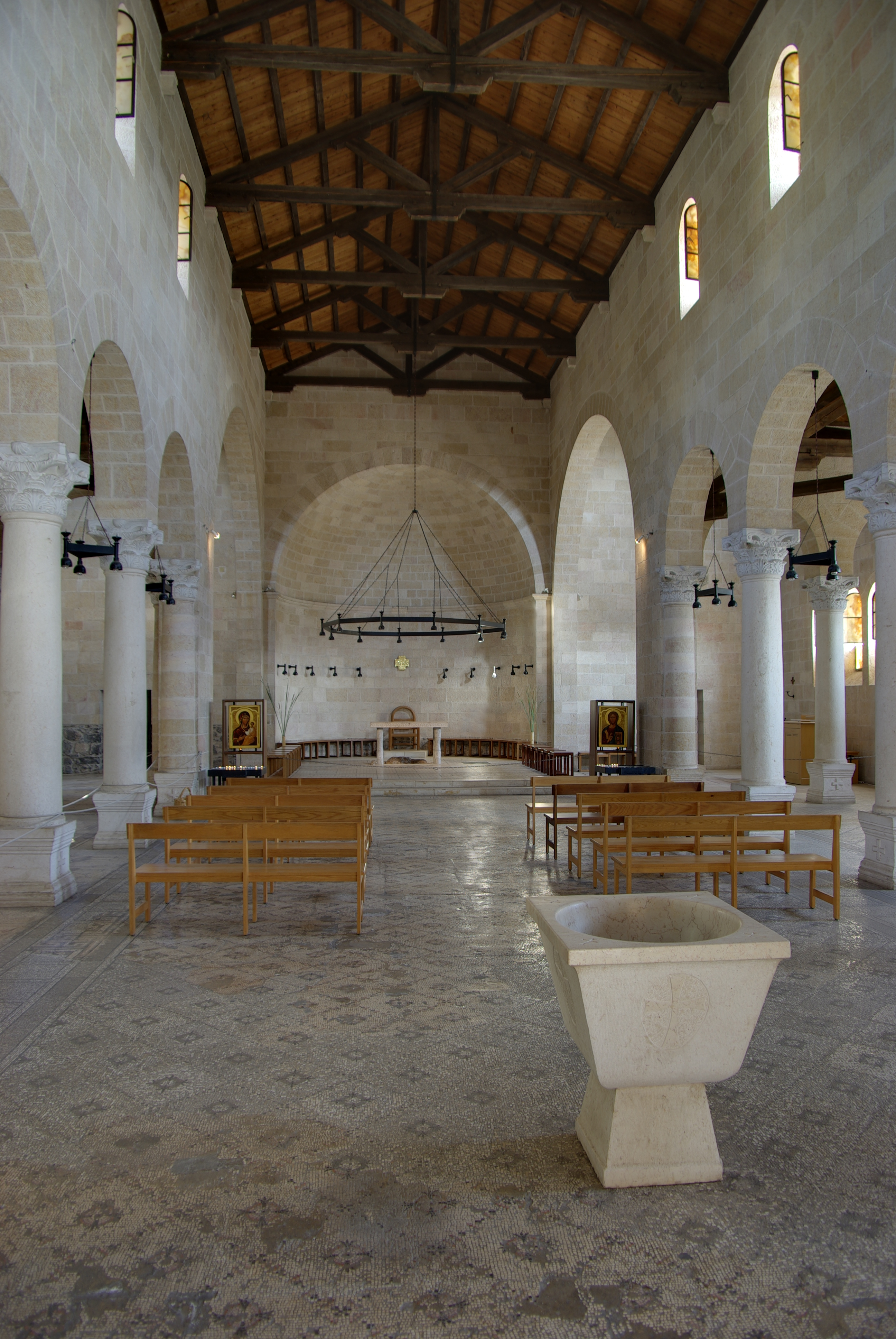 Church of the Multiplication in Tabgha